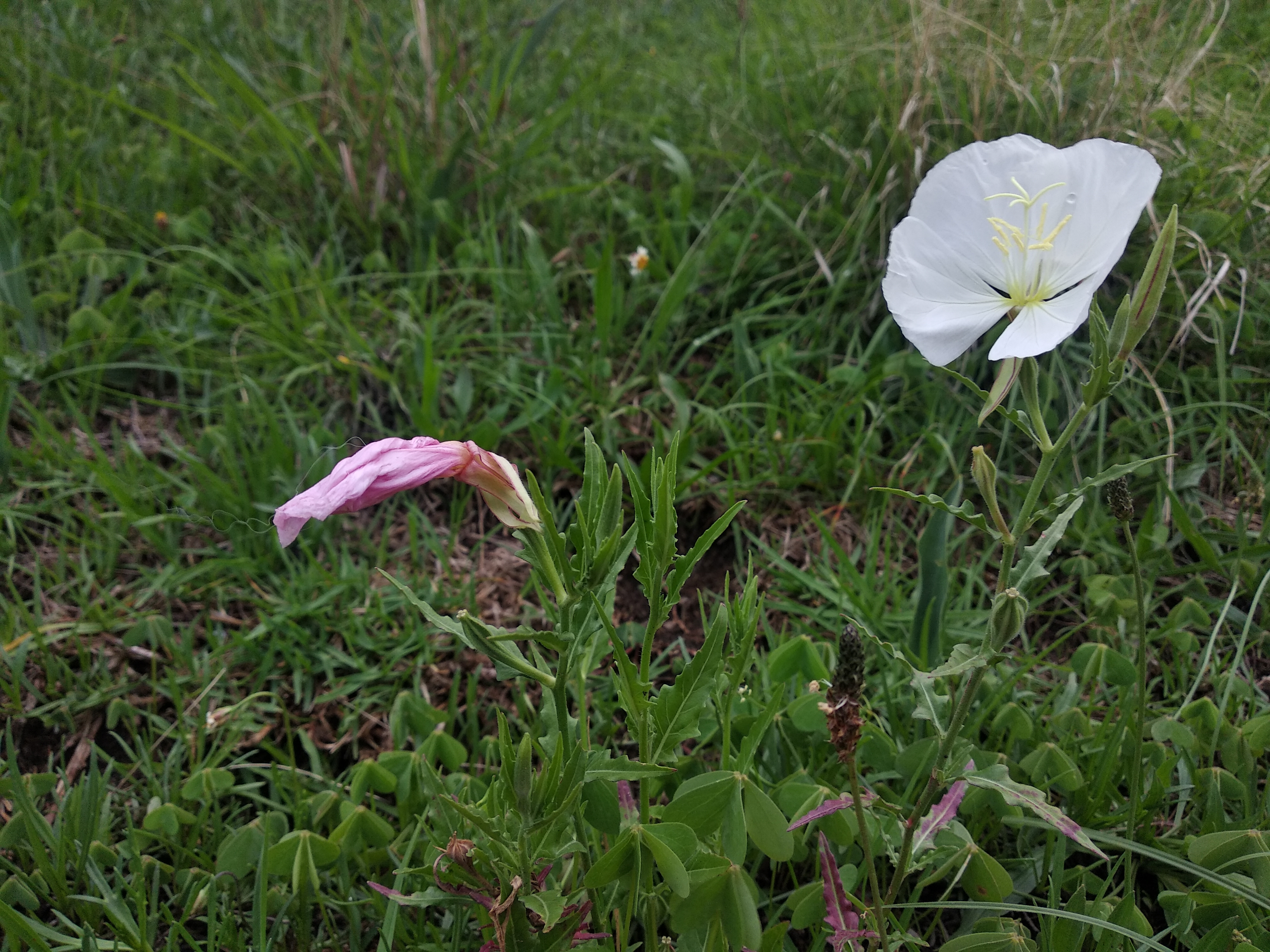 Oenothera tetraptera (Onagraceae) is a small herb native to the Americas (southern US to northern South America). This photo was taken in Puebla, Mexico, where it grows as a rather conspicuous weed.